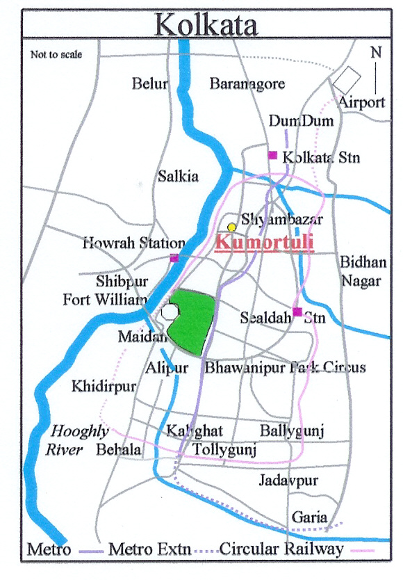 Location of Kumortuli in Calcutta